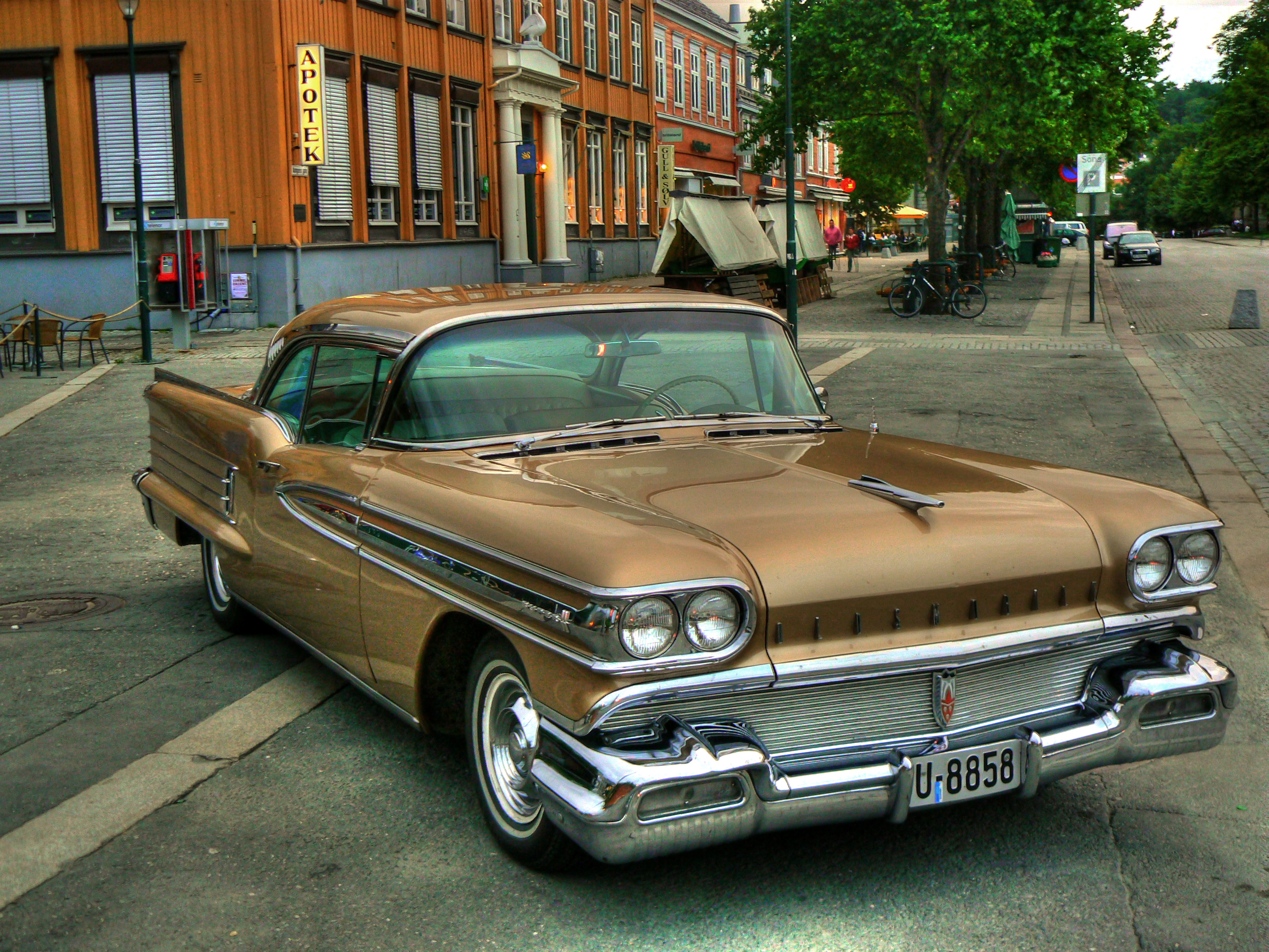 1958 Oldsmobile Super Eighty-Eight